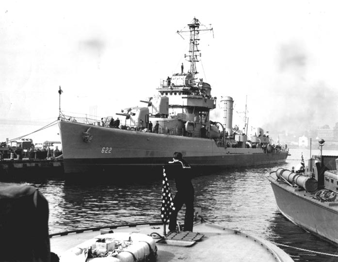 The U.S. Navy destroyer USS Maddox (DD-622) at New York Navy Yard in early 1943.